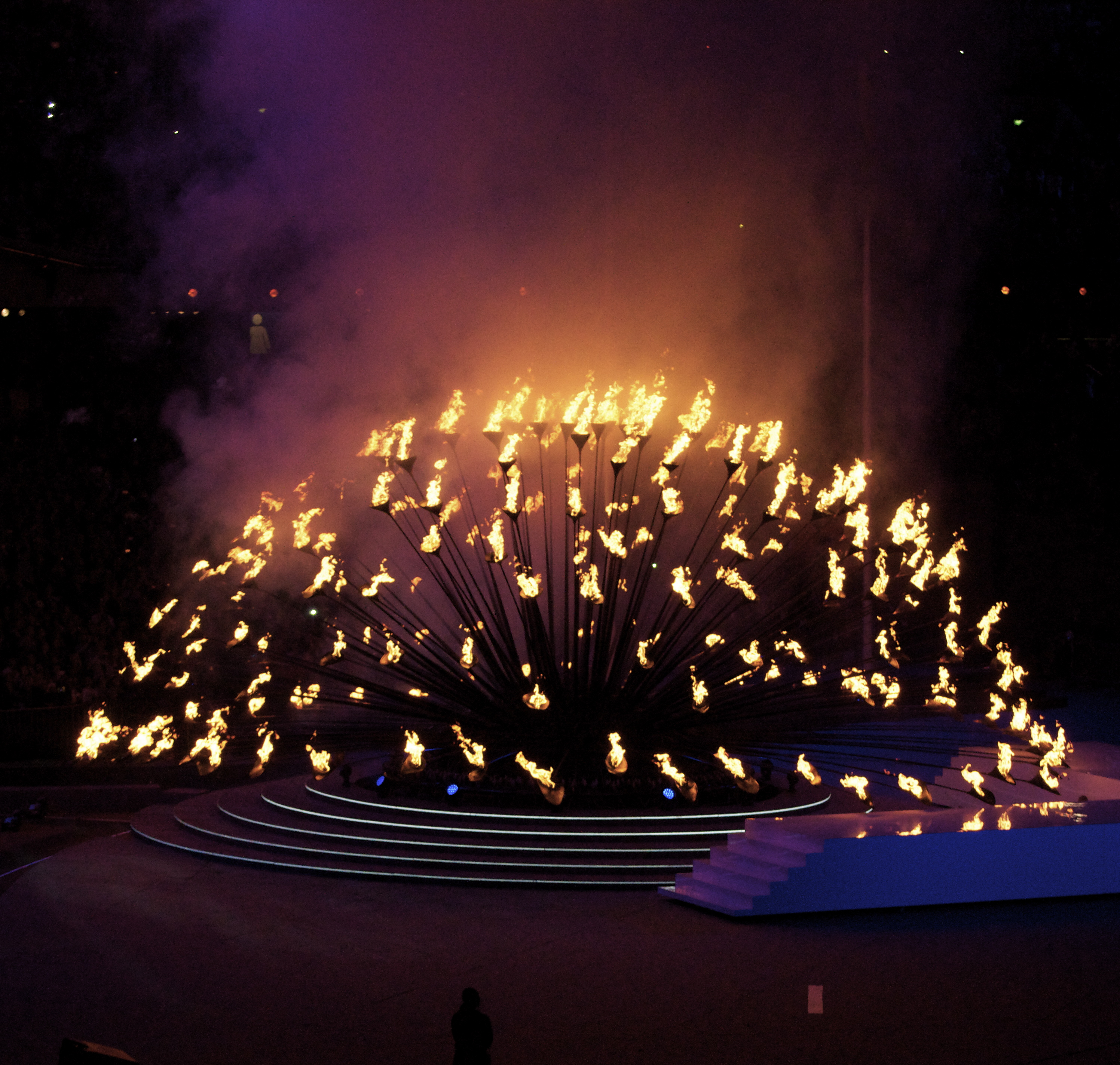 The part lowered cauldren